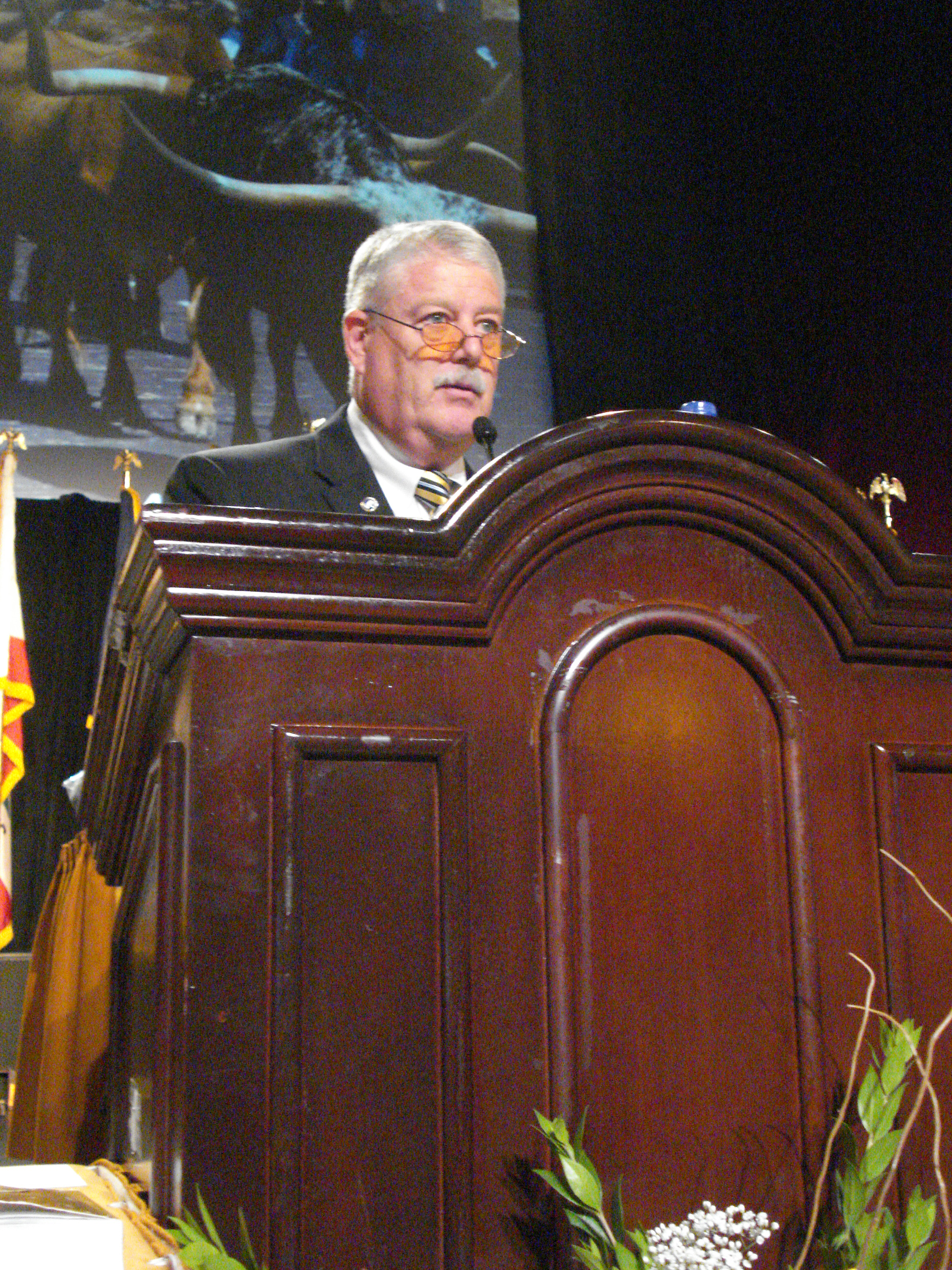 NRLCA President Don Cantriel taken at the 2009 National Convention